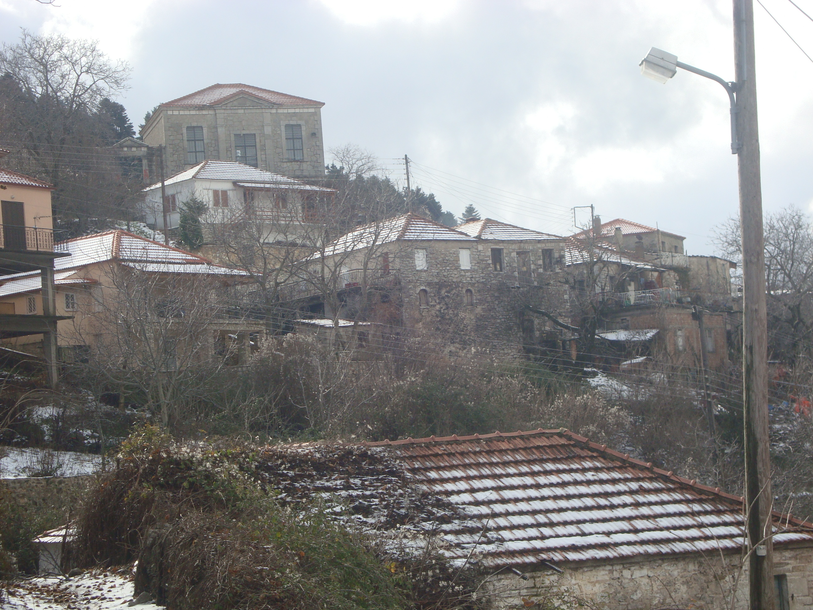 Kryobrysh - Kriobrisi village , Elis, Greece